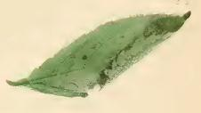 Stainton’s Natural History of the Tineina (1855–1873): Phyllonorycter spinicolella mined sloe leaf